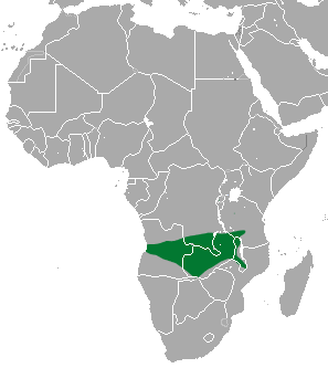 Dobson's Epauletted Fruit Bat (Epomops dobsoni) range